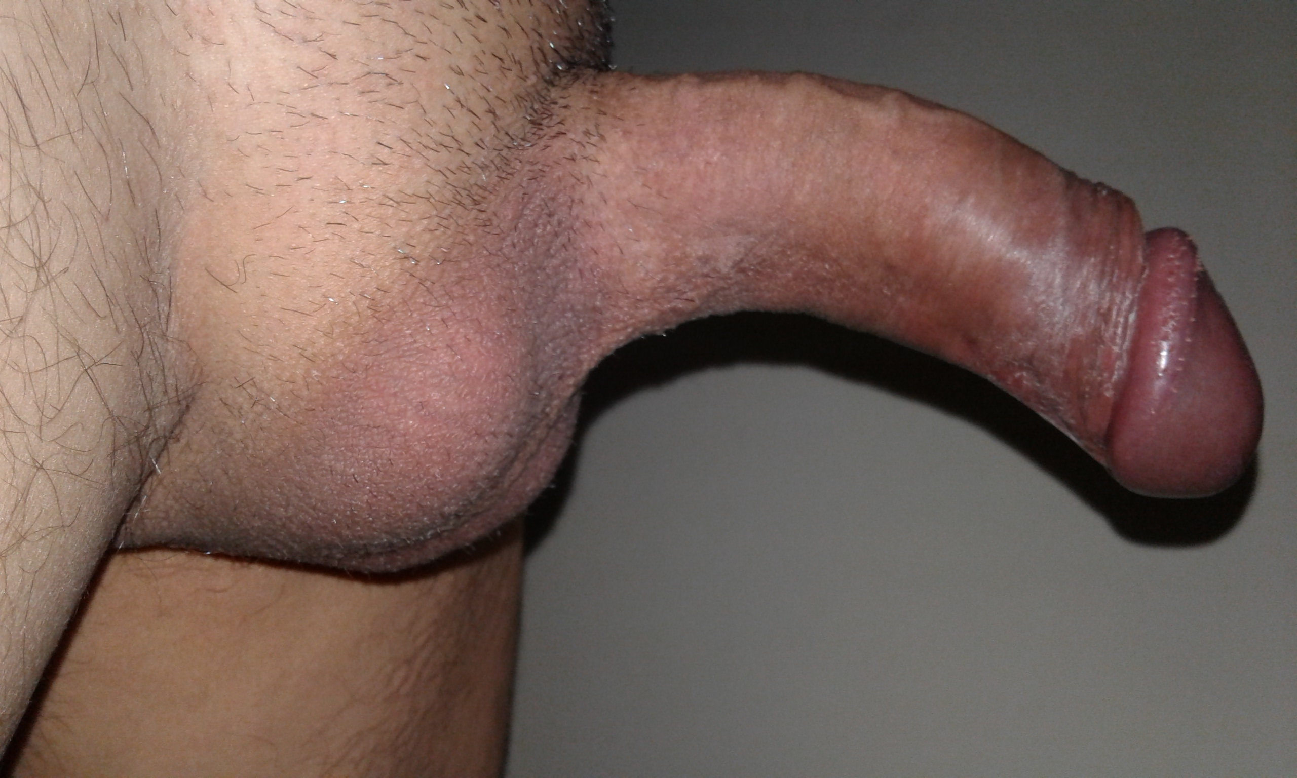 Curvature of a penis